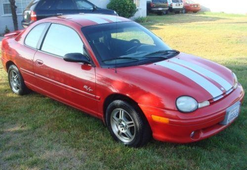 1998 Dodge Neon R/T